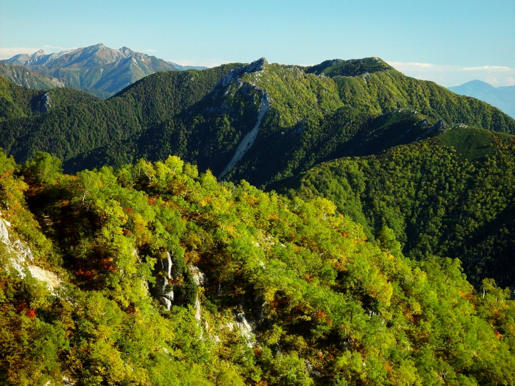 Mount Gaki (Gaki-dake) and Mount Kashimayari (Kashimayari-ga-take, background) seen from the Kassen Ridge